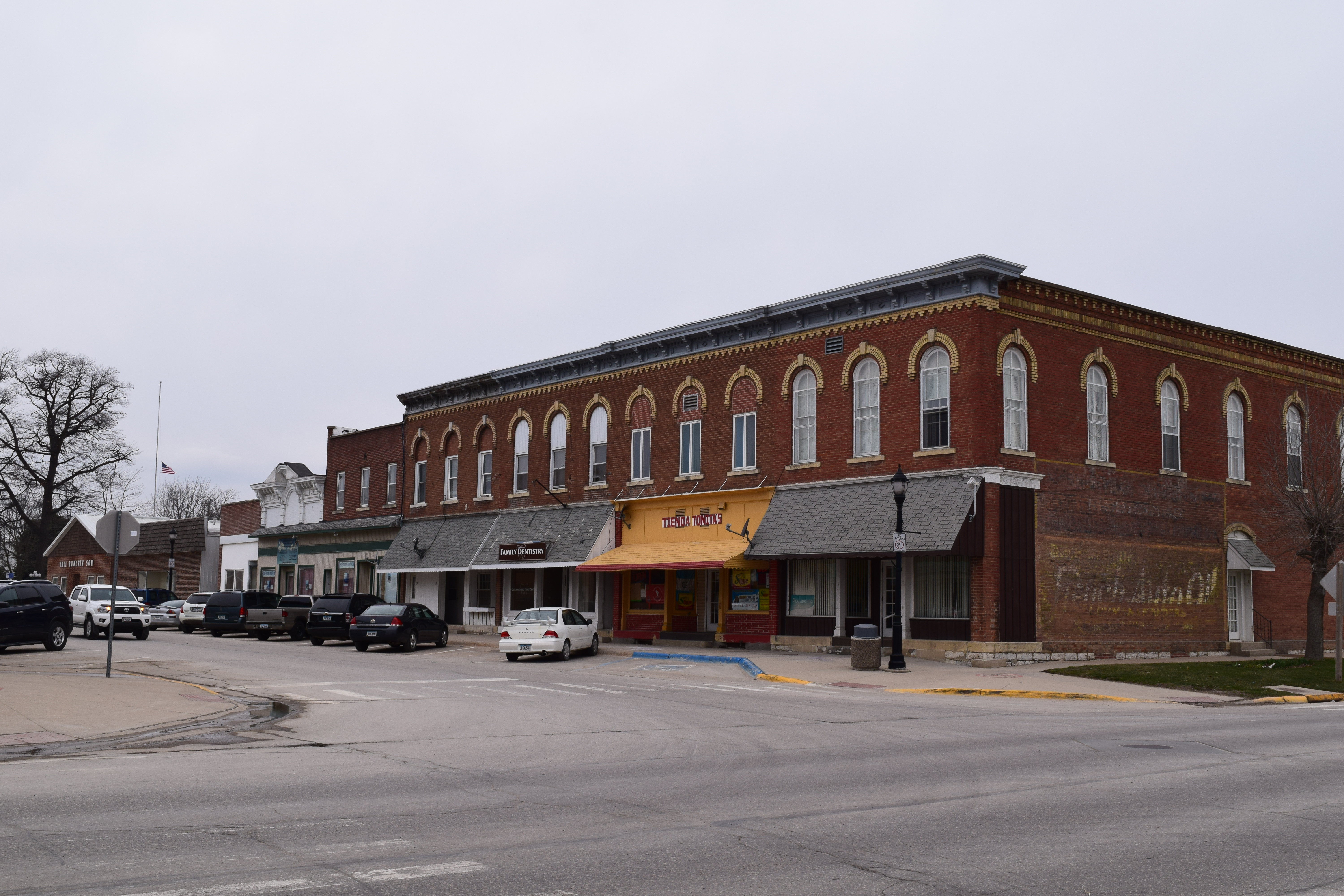 Business district in Postville, Iowa.